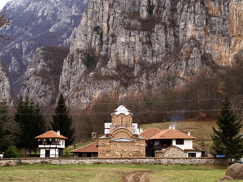 Poganovo Monastery of St.John Theologian,14th century AD